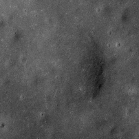 Henry crater, Taurus–Littrow valley, on the moon. Sun elevation 46 deg., spacecraft altitude 112 km.